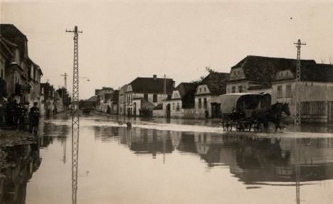 arad